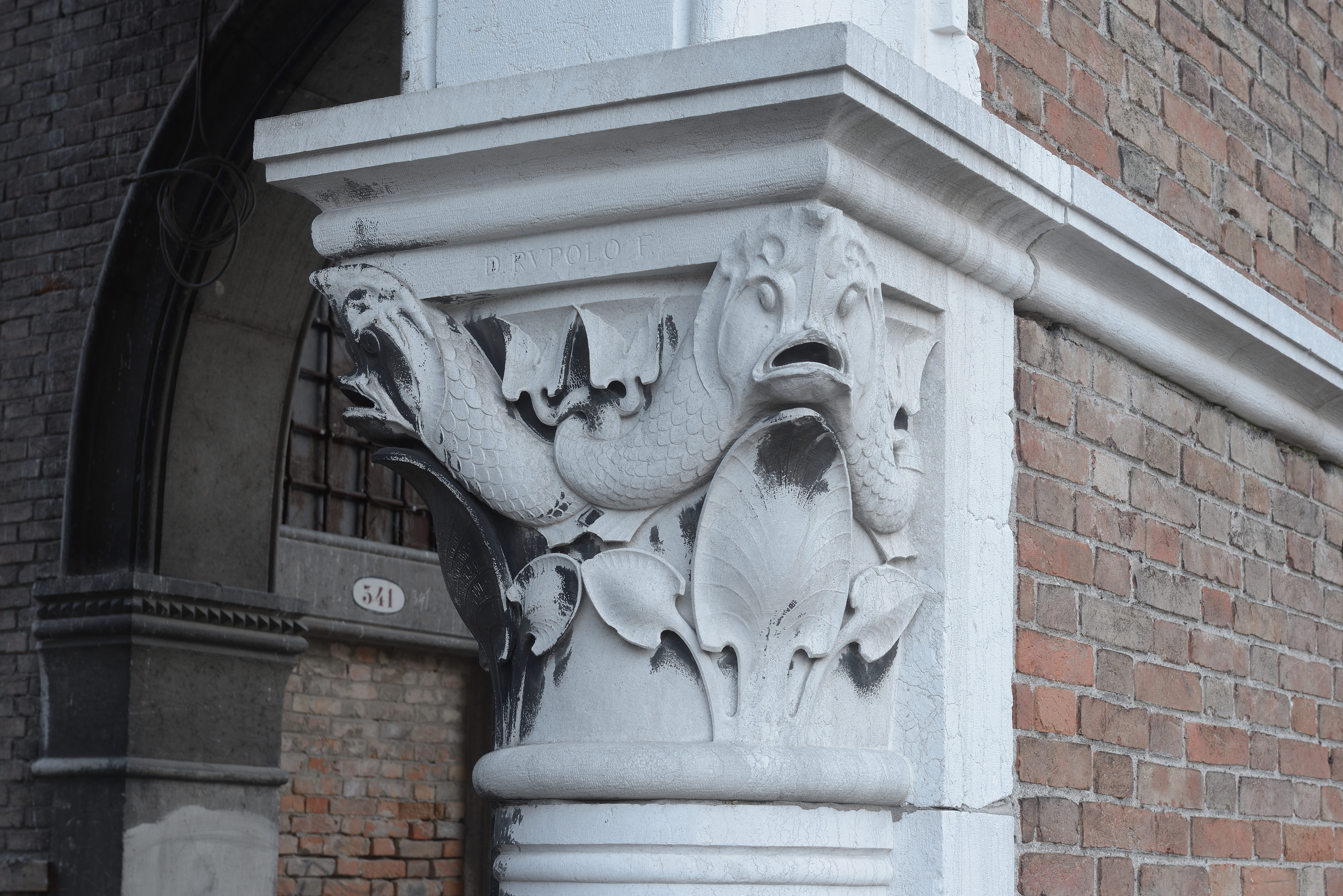 Capital by Domenico Rupolo at the Pescaria fish market (Gothic Revival, 20th century) in Venice